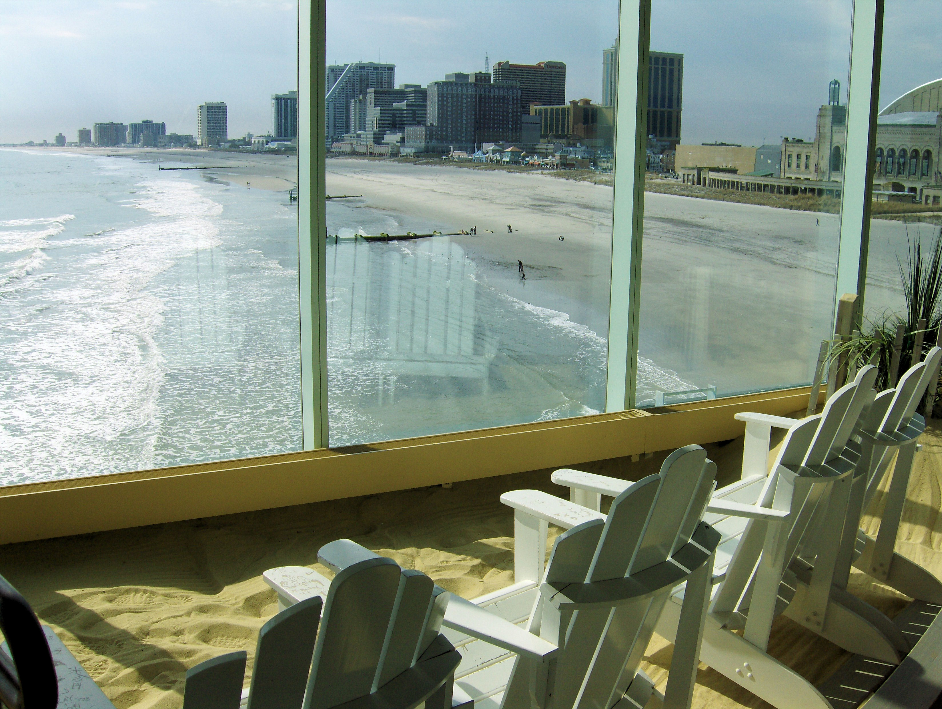 The Beach at The Pier Shops at Caesars with a view of the ocean along with Hilton, Tropicana and Boardwalk Hall.